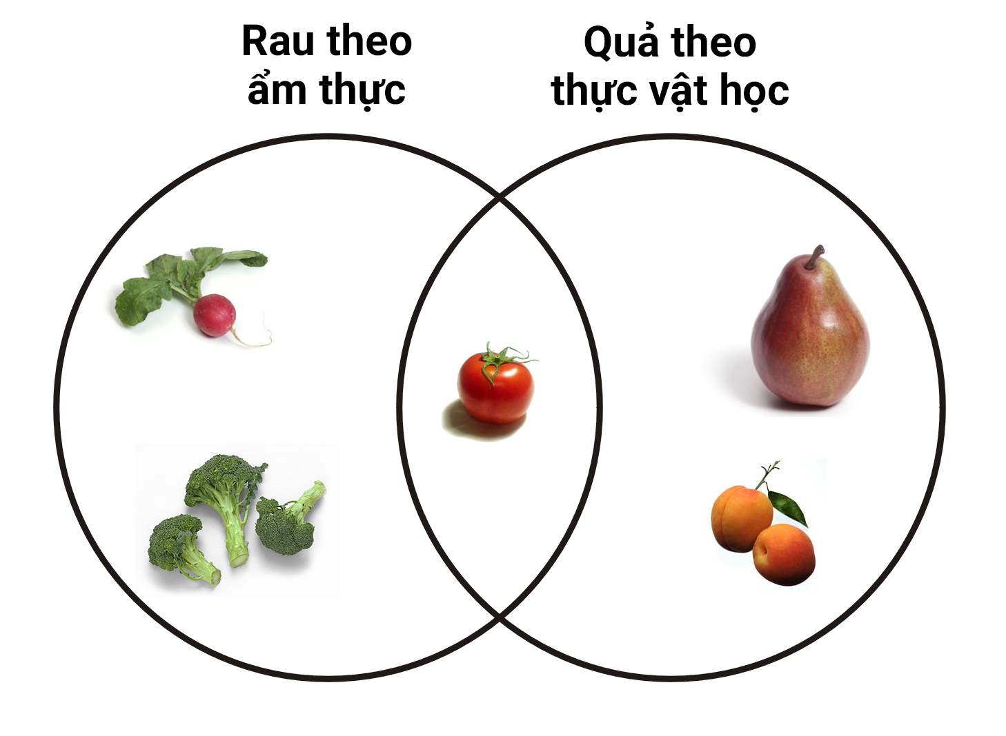 Vietnamese translation of Botanical Fruit and Culinary Vegetables.png.